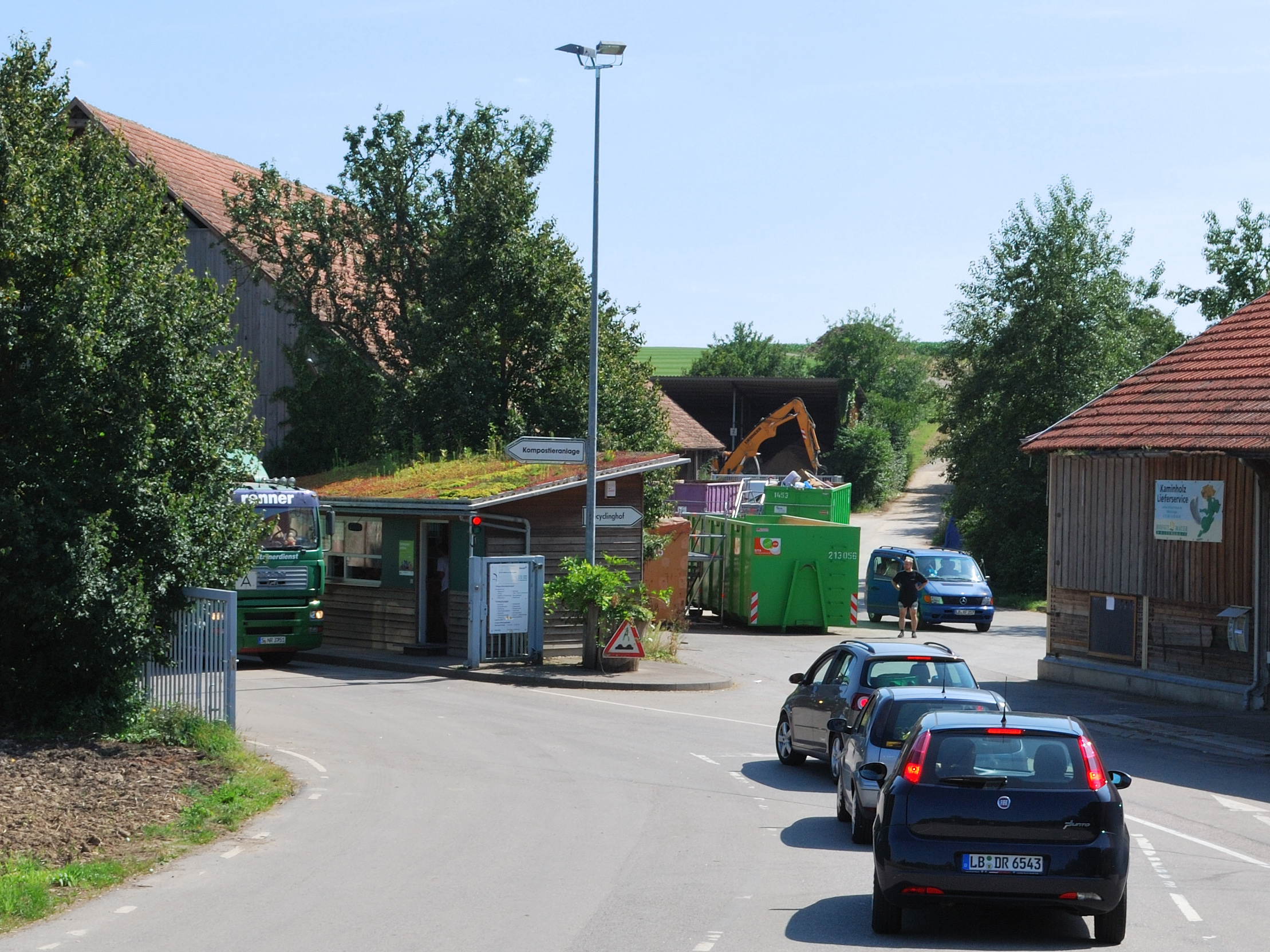 Entrance to the recycling centre and to the compost works at Hofgut Mauer in Münchingen (Baden-Württemberg, Germany).